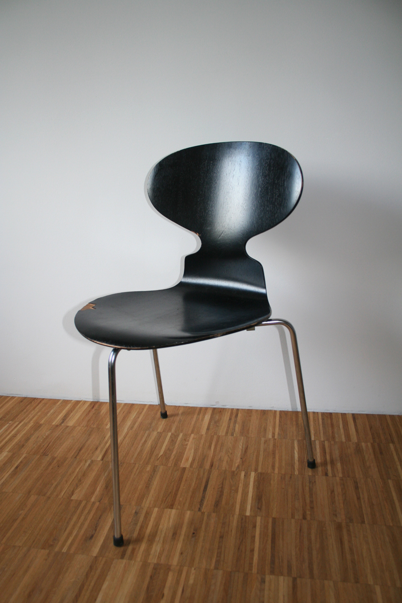 Ant chair designed 1952 by danish architect Arne Jacobsen.